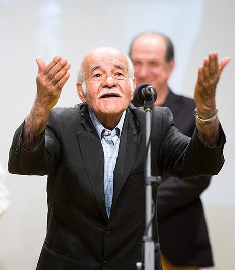 Documentary film category of 17th Iranian cinema celebration was held at Eyvan Shams theatre by Iran's House of Cinema.